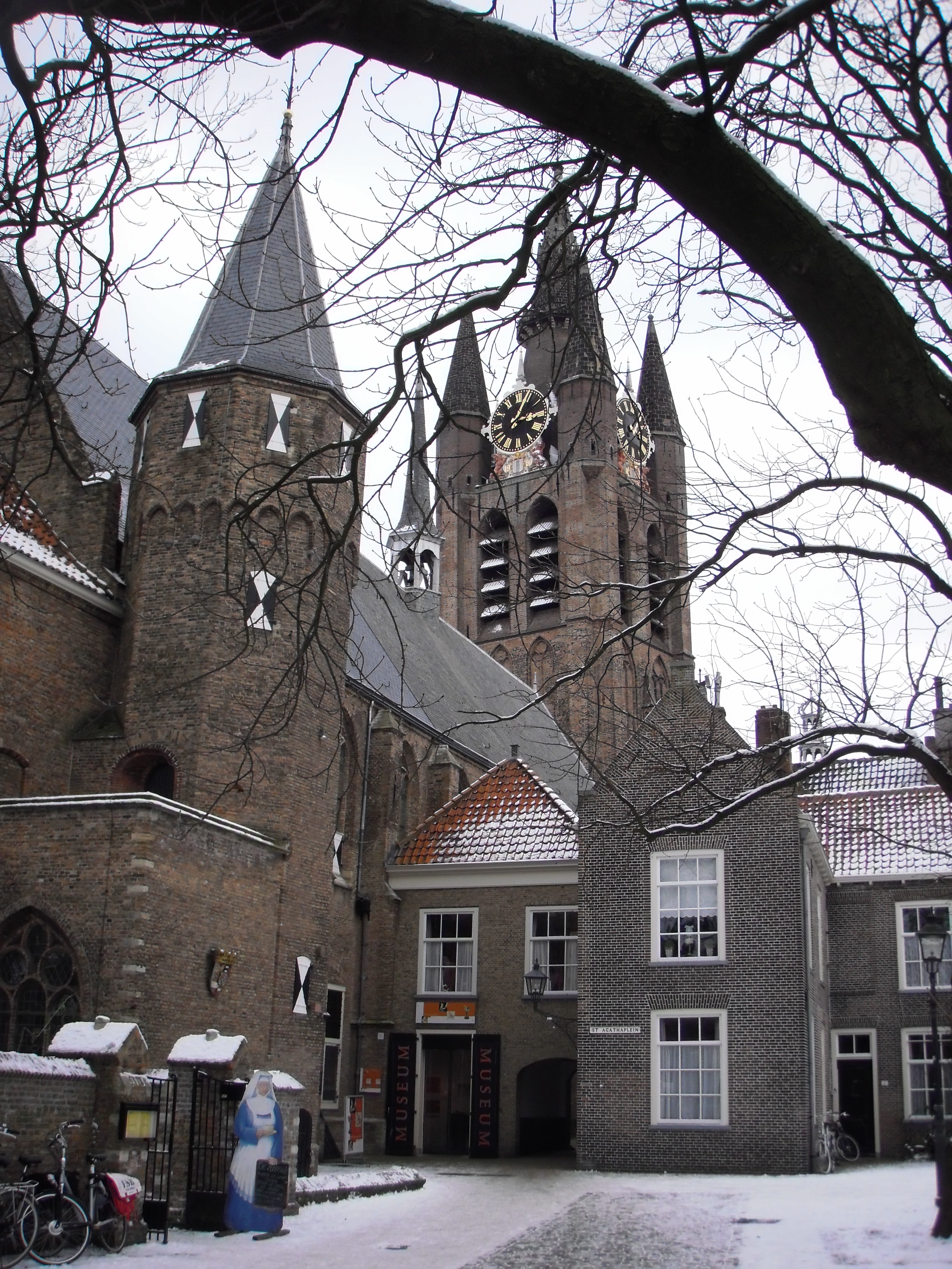 Museum Het Prinsenhof Delft, in the background the "Oude Kerk".